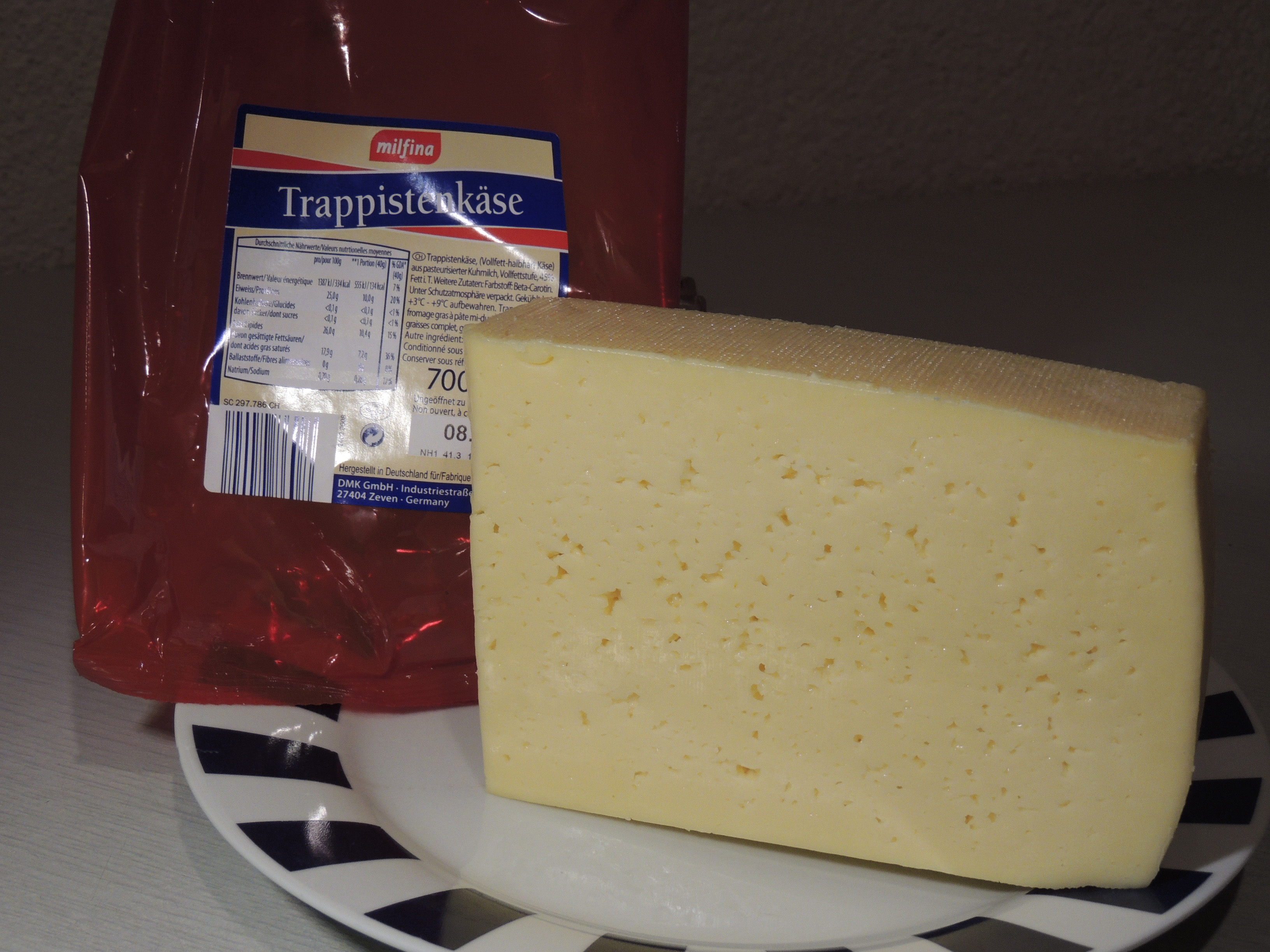 Open Trappisten-cheese